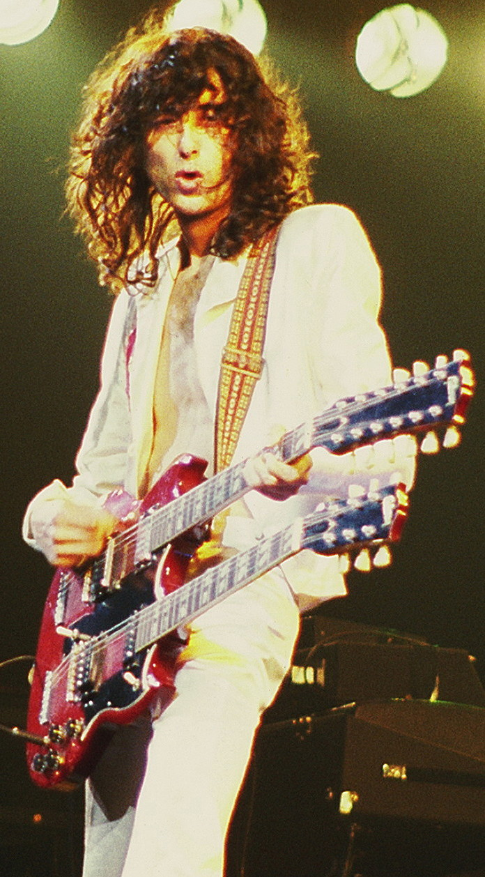 Jimmy Page of Led Zeppelin, in concert in Chicago, Illinois